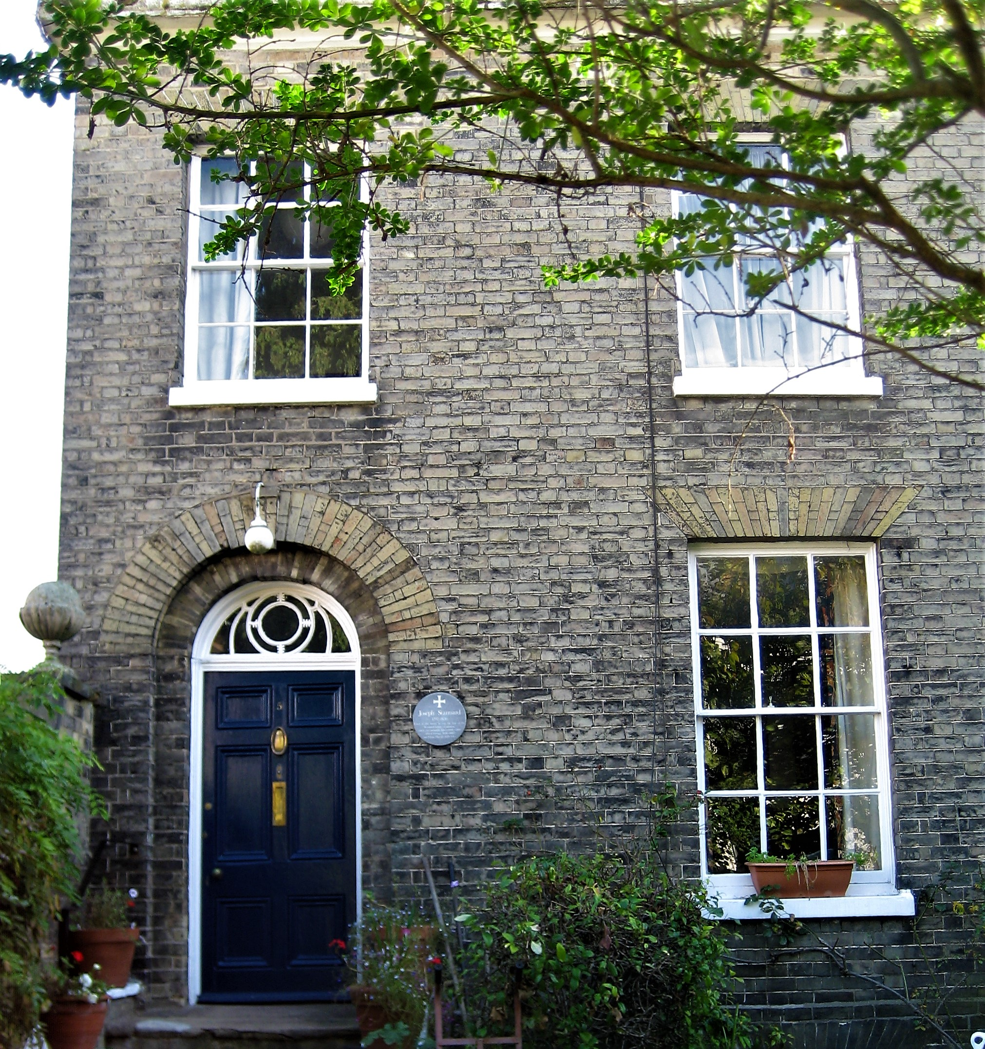 The house in Norwich where the Stannard family of artists lived